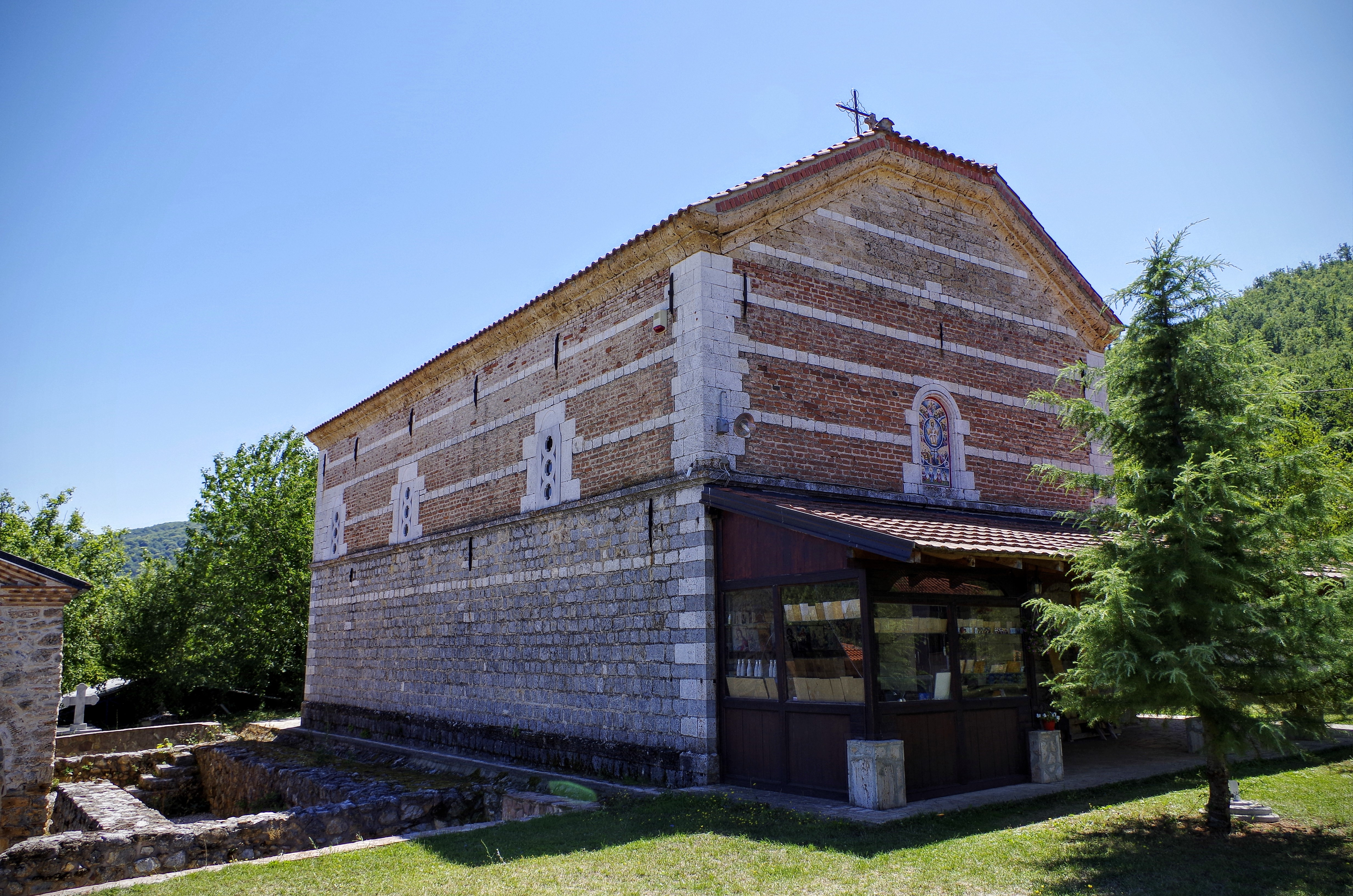 Part of All Saints Monastery in the village Lešani, Macedonia